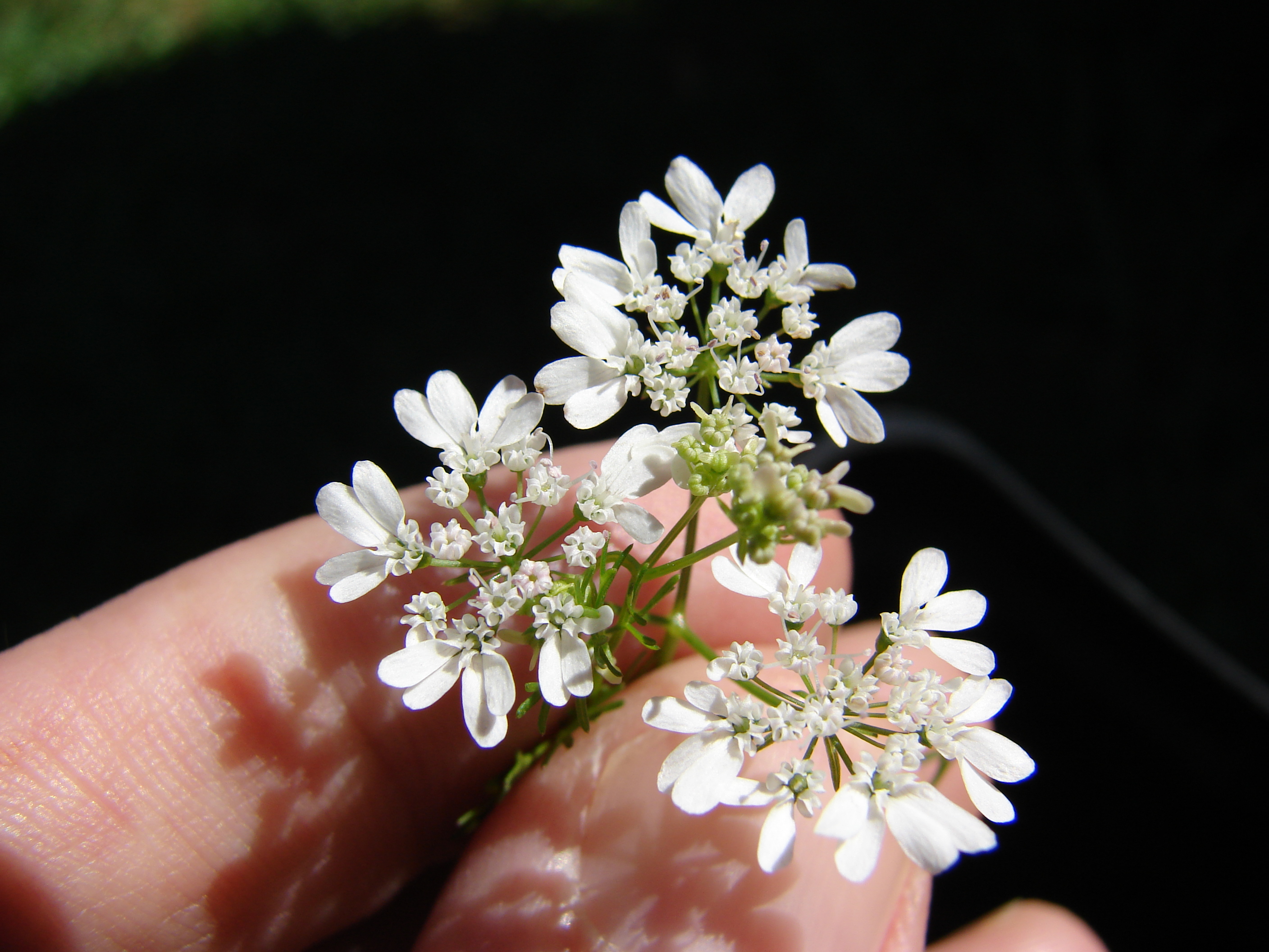 Coriandrum sativum (flowering in pot). Location: Maui, makawao